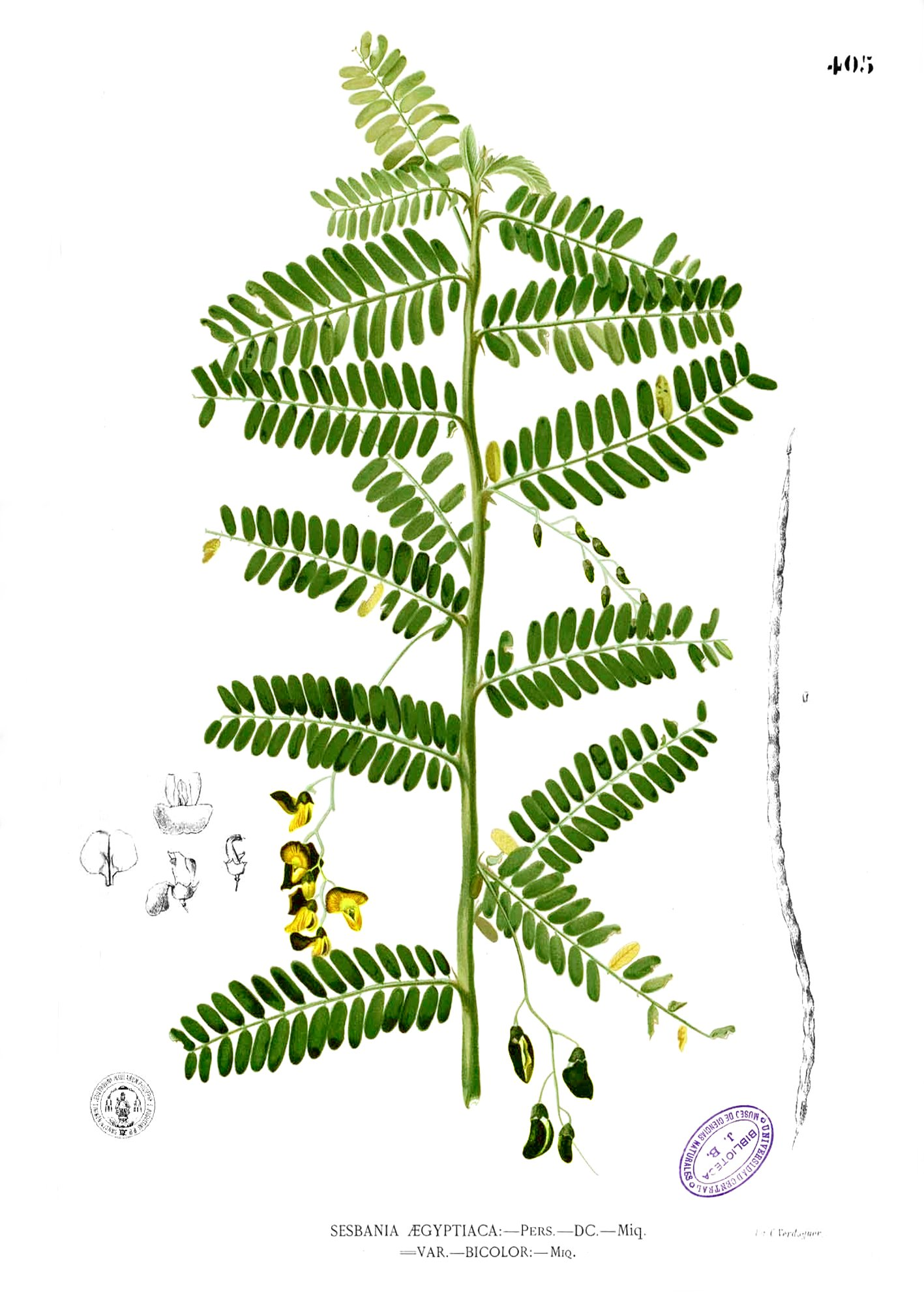 Plate from book